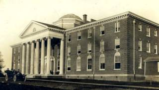 Photographic view of Pruden Hall, Chatham Episcopal Institute, pre-1920, from a postcard. Open car pictured in front of the Hall.